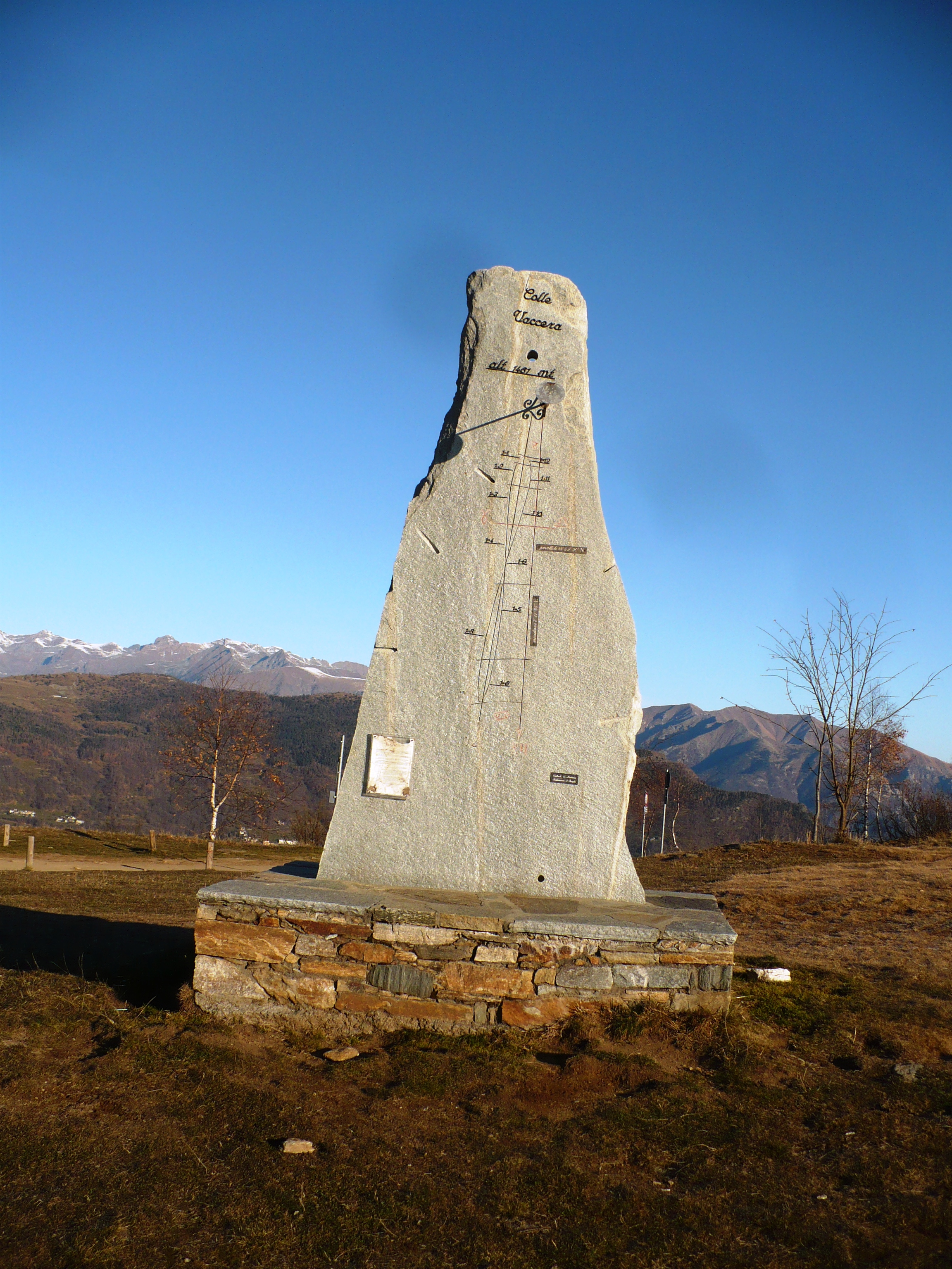 Colle Vaccera - Cottian Alps - Piedmont - Italy